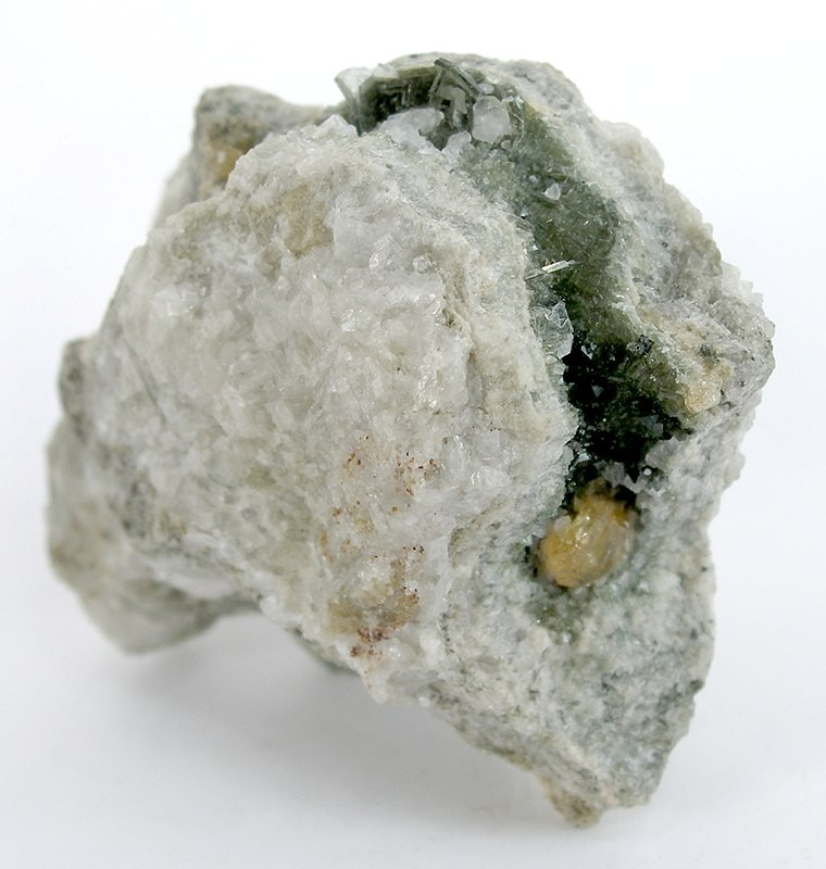 Humite Locality: Monte Somma, Somma-Vesuvius Complex, Naples Province, Campania, Italy (Locality at ) Size: 5.3 x 4.9 x 2.2 cm. A very well crystallized gem humite measuring about 5mm, perched in a protected vug of matrix, from this important locality! Type Locality. Discovered here in 1813. Ex. American Museum of Natural History, Clarence Bement collection, donated in 1910.